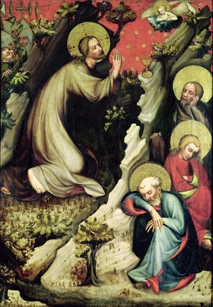 The Agony in the Garden of Gethsemane